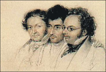 Three friends (Johann Baptist Jenger, Anselm Hüttenbrenner und Franz Schubert)